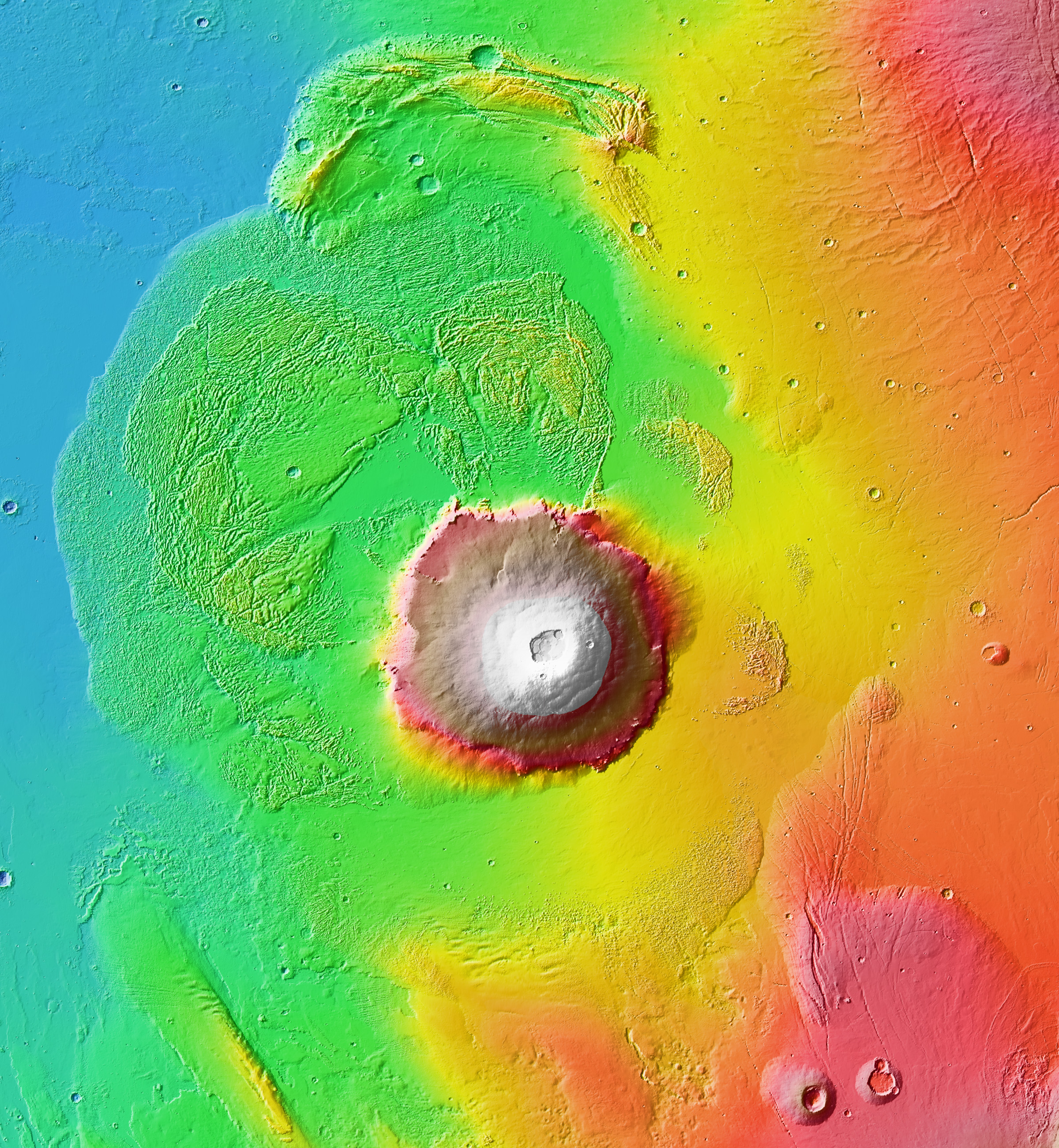 A colorized topographic map of the martian shield volcano Olympus Mons, together with its surrounding aureole, from the Mars Orbiter Laser Altimeter (MOLA) instrument of the Mars Global Surveyor spacecraft. Olympus Mons, the largest volcano in the Solar System, lies in the western part of the volcanic province Tharsis. The volcanoes Alba Mons and Pavonis Mons lie just beyond the upper right and lower right corners of the image, respectively. Some of the features in this image are annotated in Wikimedia Commons.